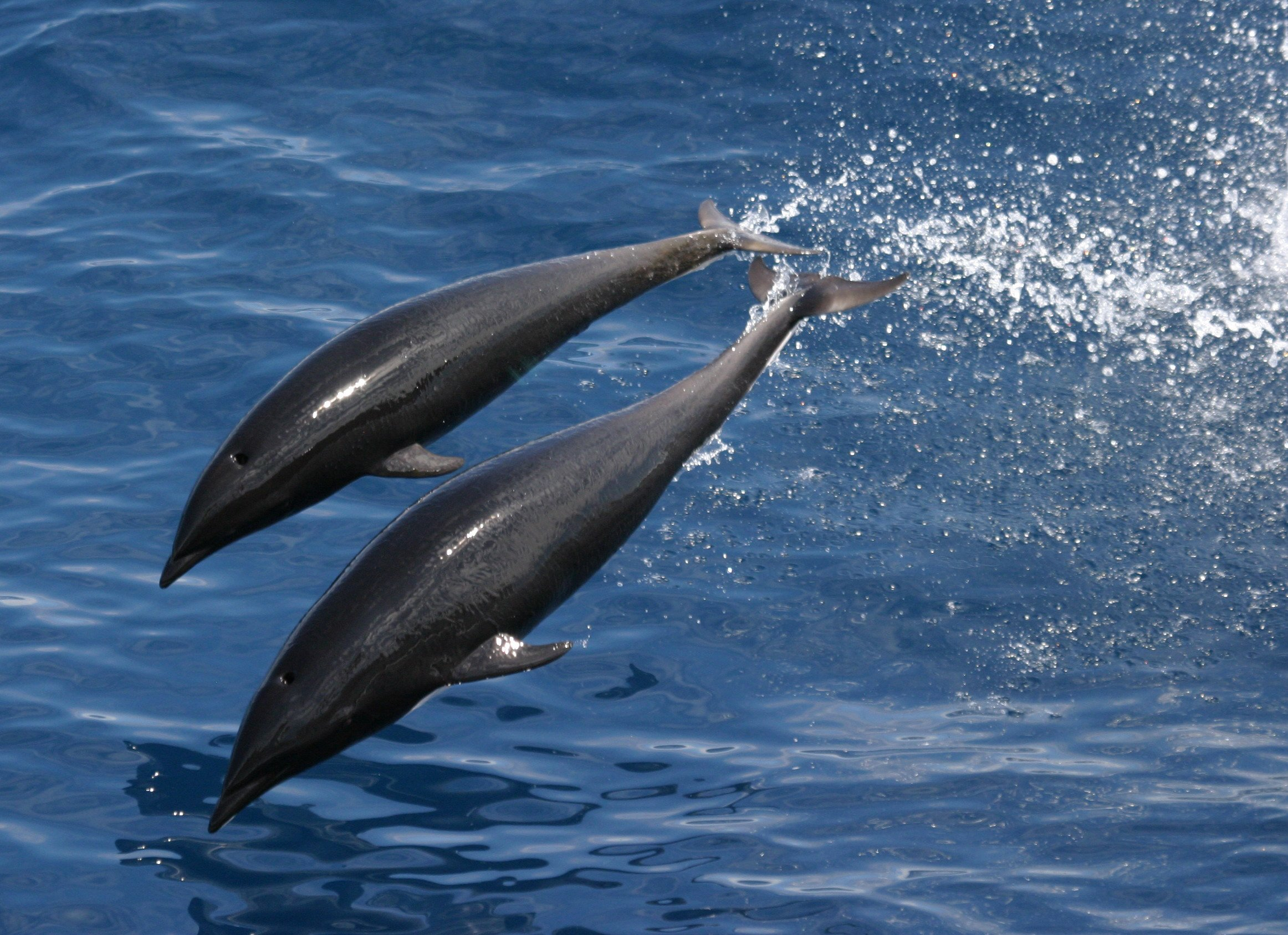 Northern right whale dolphin. The lack of a dorsal fin makes identification of this species much easier. Washington. 2005.